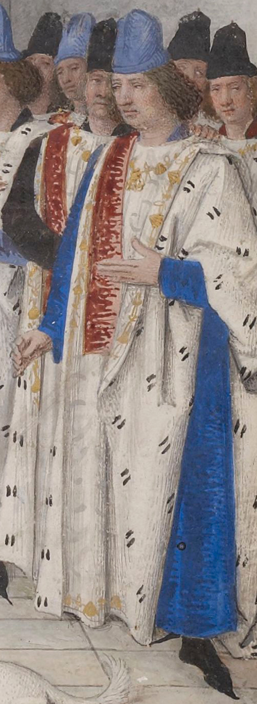 John II of Bourbon, detail of an illumination in the Statuts de l'ordre de Saint-Michel.